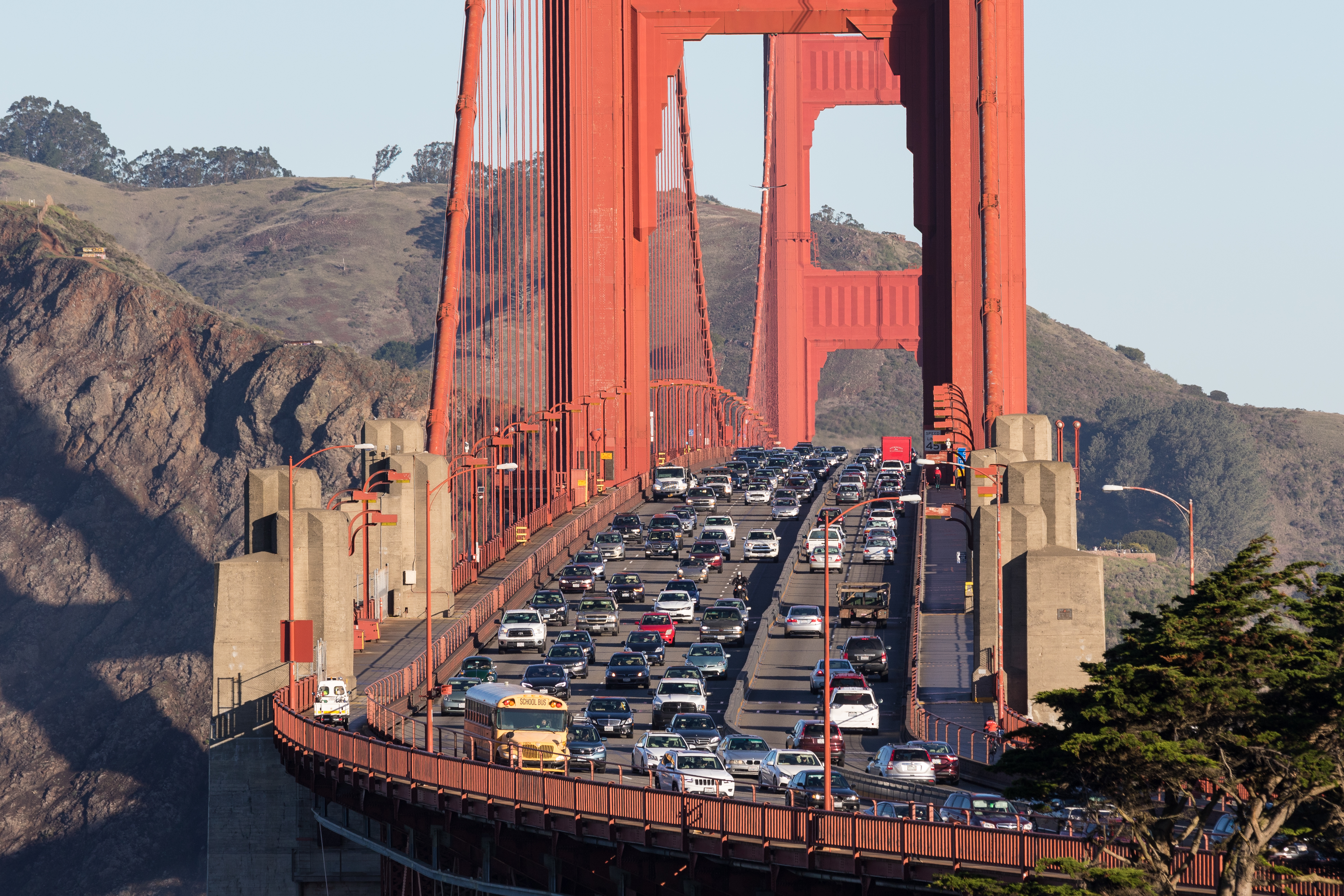 Morning traffic on the Golden Gate Bridge, as seen from the Presidio, San Francisco, California